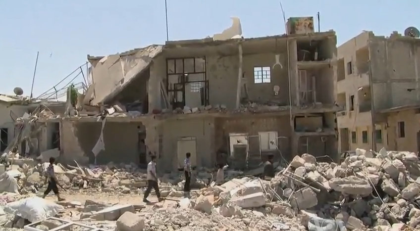 Azaz, Syria during the Syrian civil war. 16 August 2012, Azaz residents pick up after aerial bombings. Bombed out buildings.